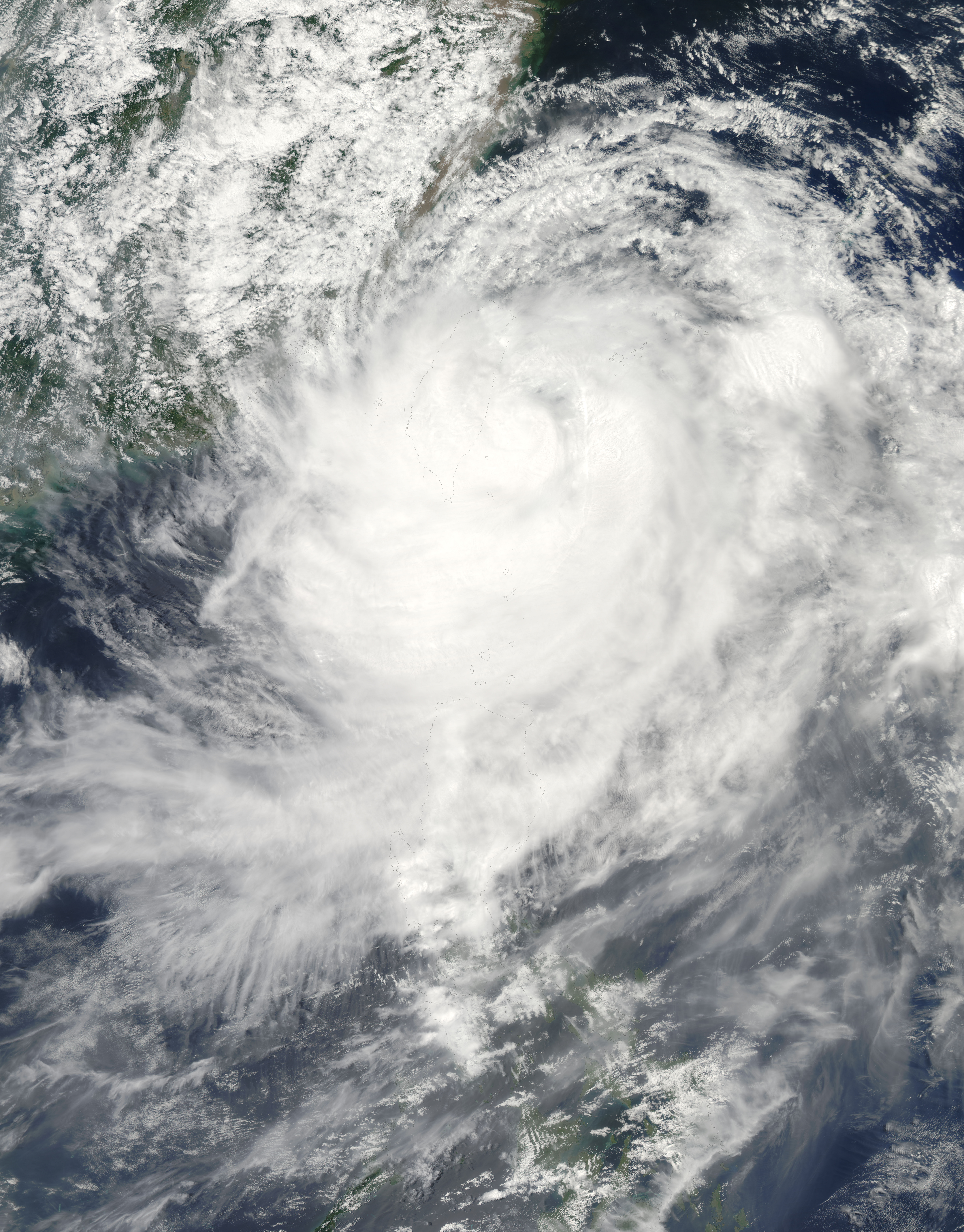 Typhoon Morakot (Kiko) was taken over Taiwan in August 7 2009.